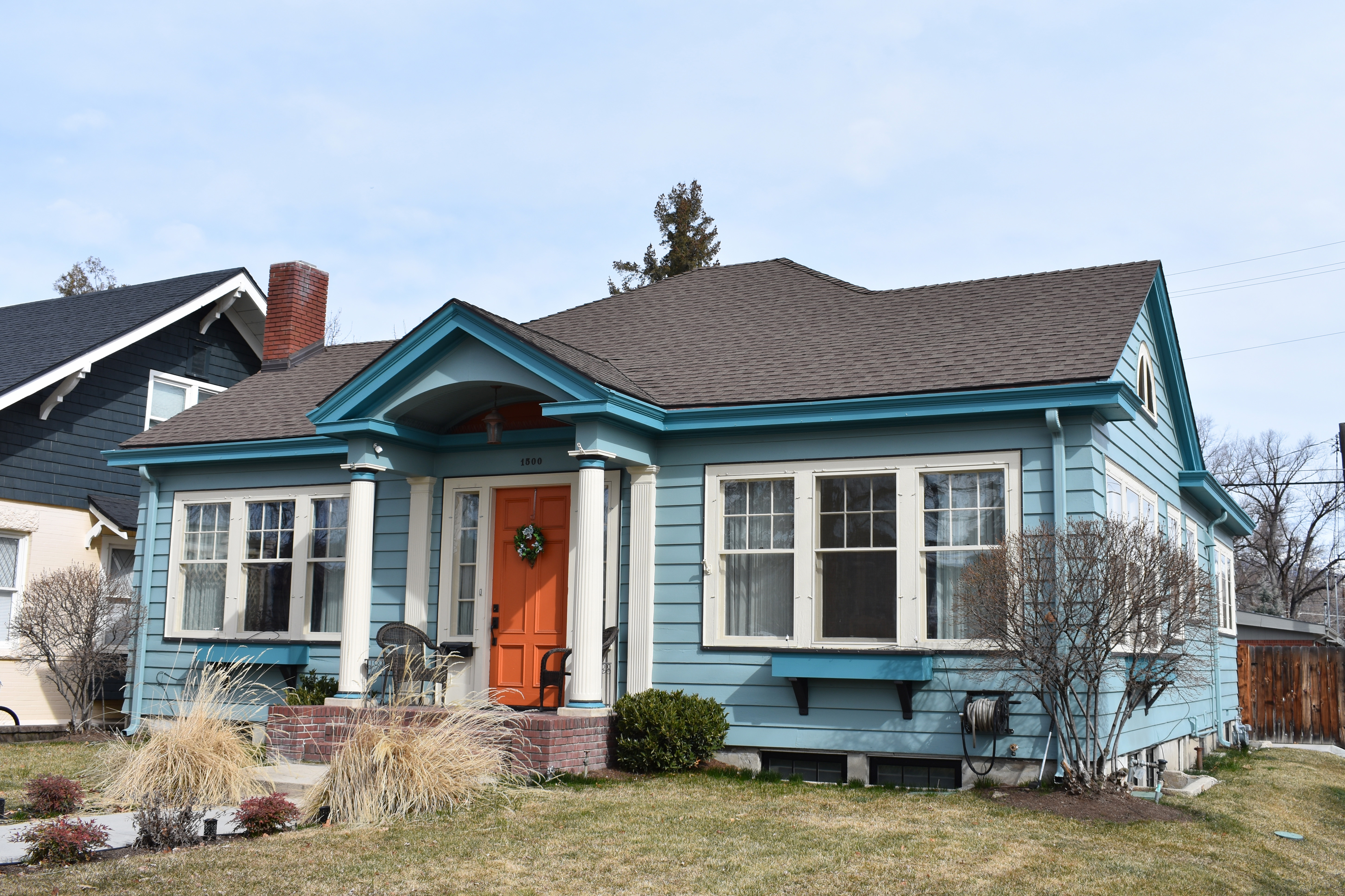 The William Dunbar House in Boise, Idaho, was designed by Tourtellotte & Hummel and is listed on the National Register of Historic Places. The house also is part of the Fort Street Historic District.